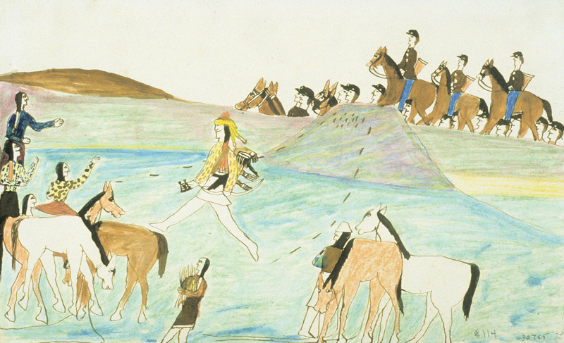 Ledger Art created by a Kiowa warrior imprisoned at Fort Marion in St. Augustine, Florida